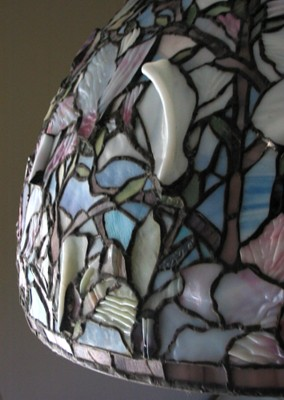 Drapery glass incorporated in a reproduction of Tiffany's magnolia lampshade.